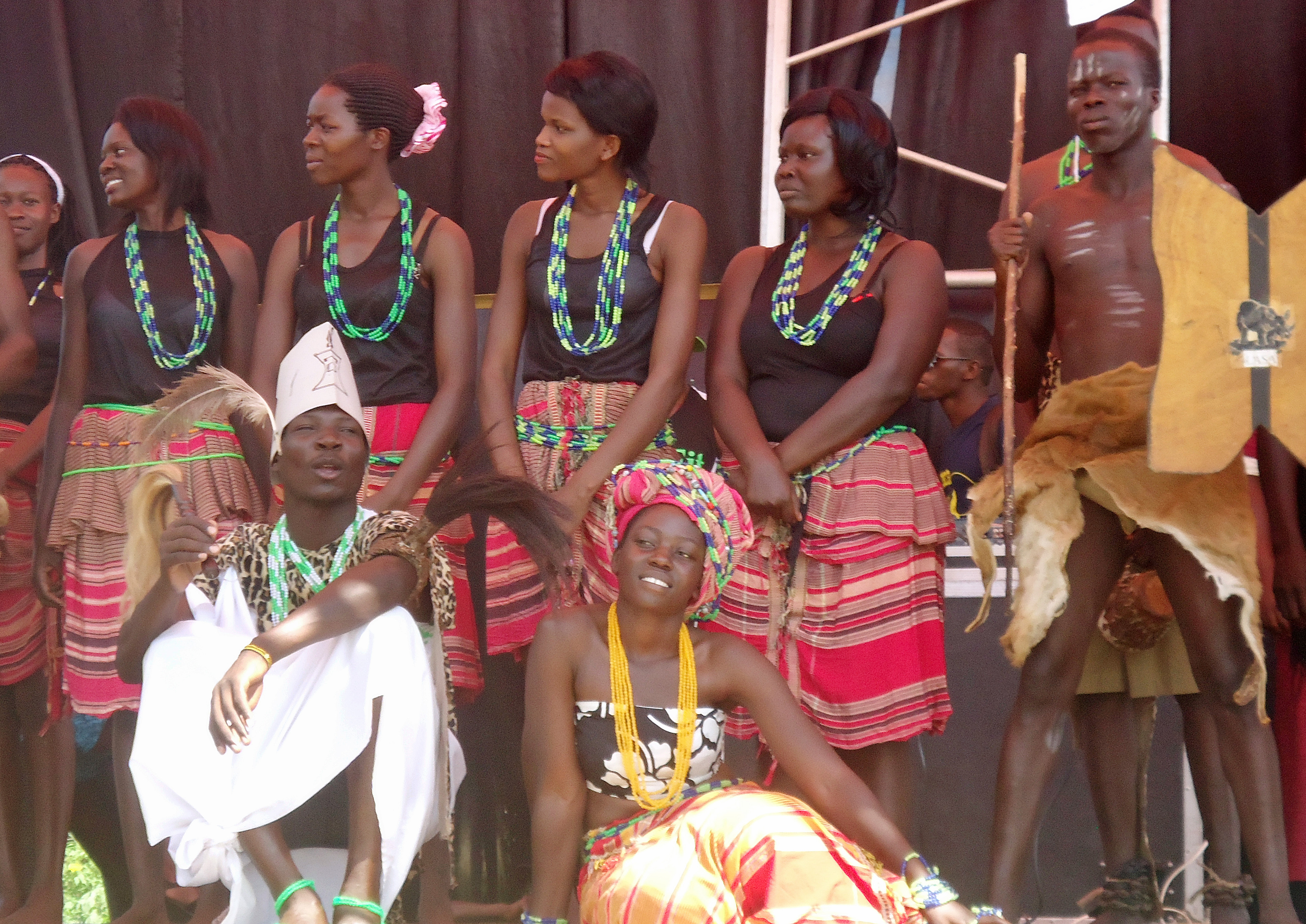 This is an image of Cultural Fashion or Adornment from Uganda